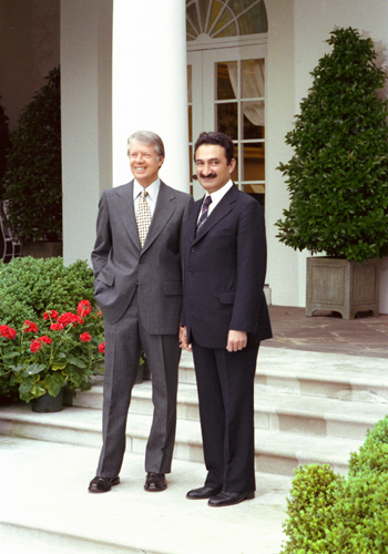 President Jimmy Carter with Turkish Prime Minister Bulent Ecevit at the White House.